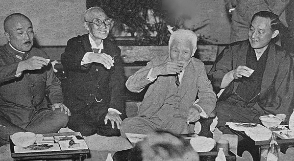 A dinner party given to high-school teacher Koichirō Toyama (1859–1945, second from left) in his honor by his former students, including War Minister Seishirō Itagaki (1885–1948, left), geophysicist Aikitsu Tanakadate (1856–1952), Naval Minister Mitsumasa Yonai (1880–1948, right), linguist Kyōsuke Kindaichi and author Kodō Nomura, at a banquet house in Tokyo.